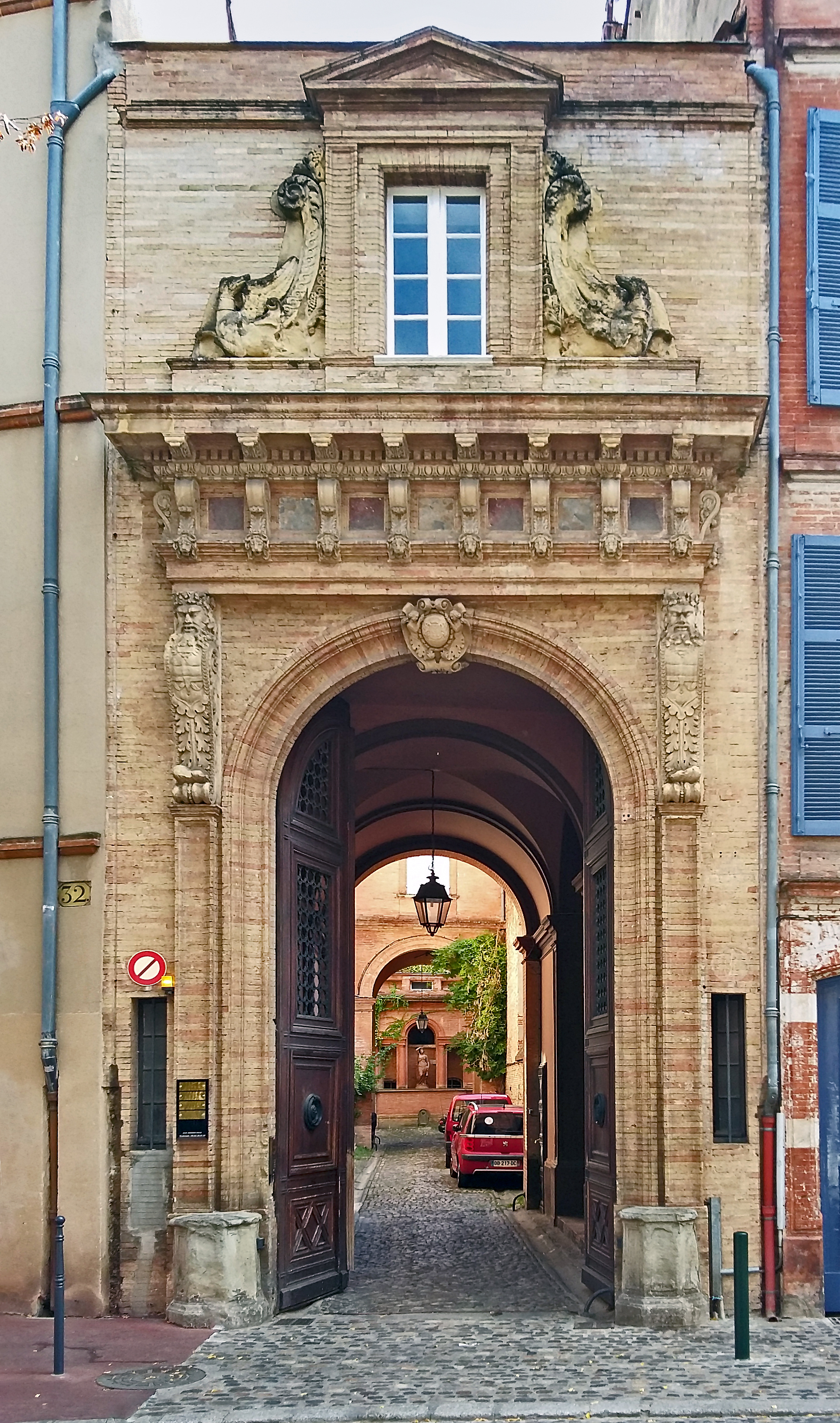 Porch of Hôtel Cassan', Mage Street, in Toulouse, by Auguste Virebentt.